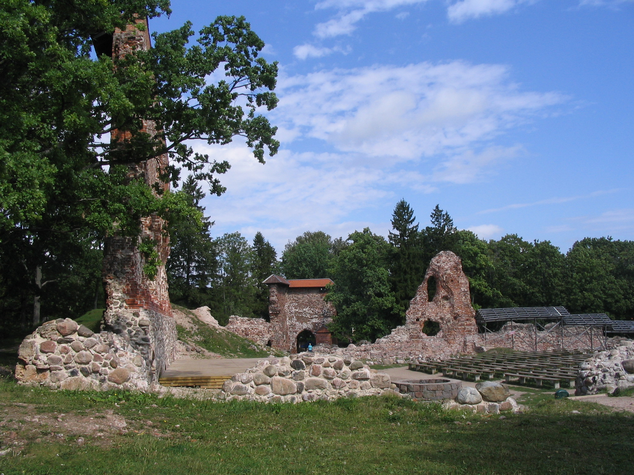 Viljandi castle. Ruins of the main castle. A standing wall of the convent building (left), the gate out of the first outer bailey (background), the well (centre right) and benches for the open-air stage. View from south.